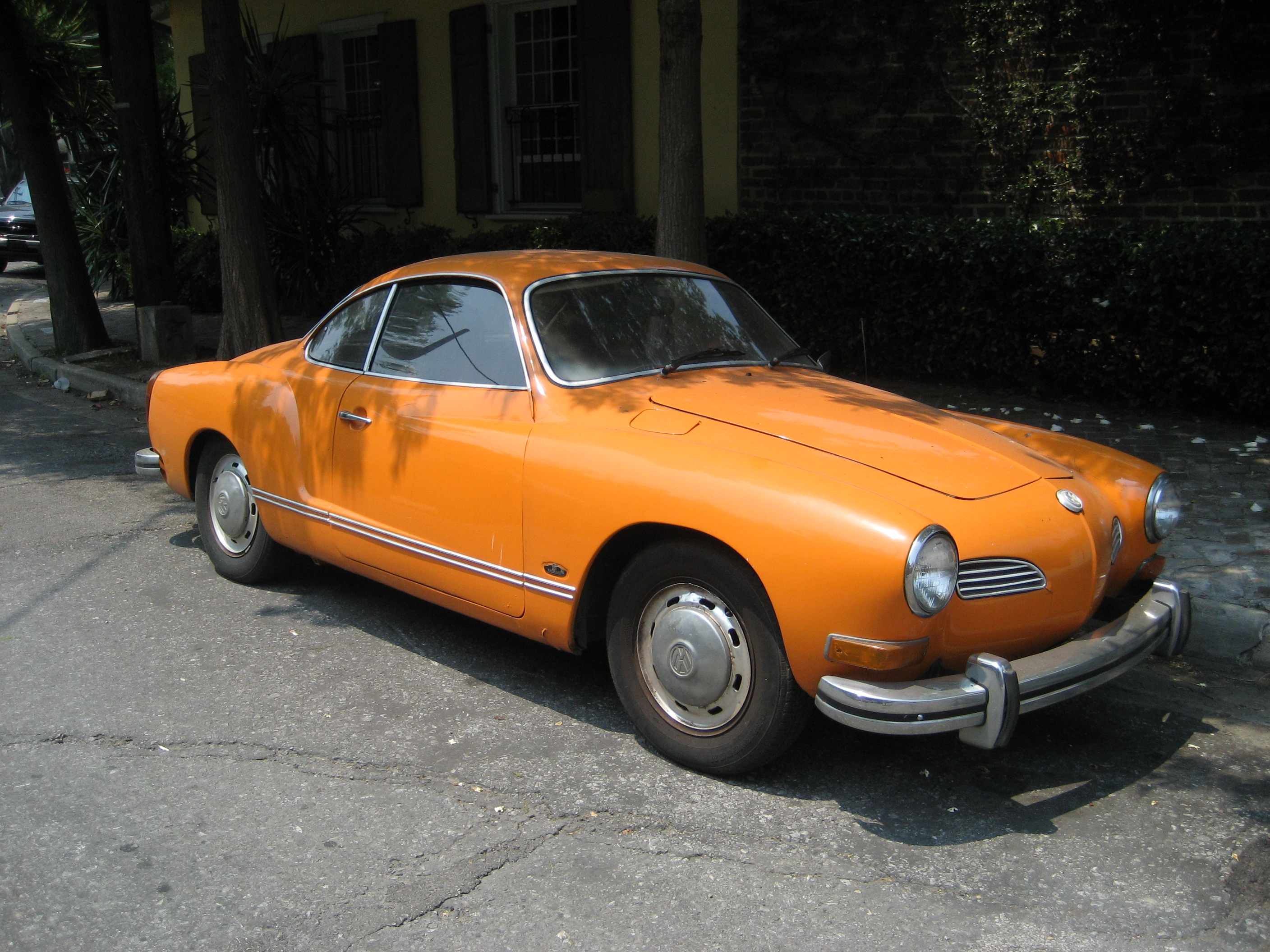 Karmann Ghia seen on street in Faubourg Marigny neighborhood of New Orleans. Side view.